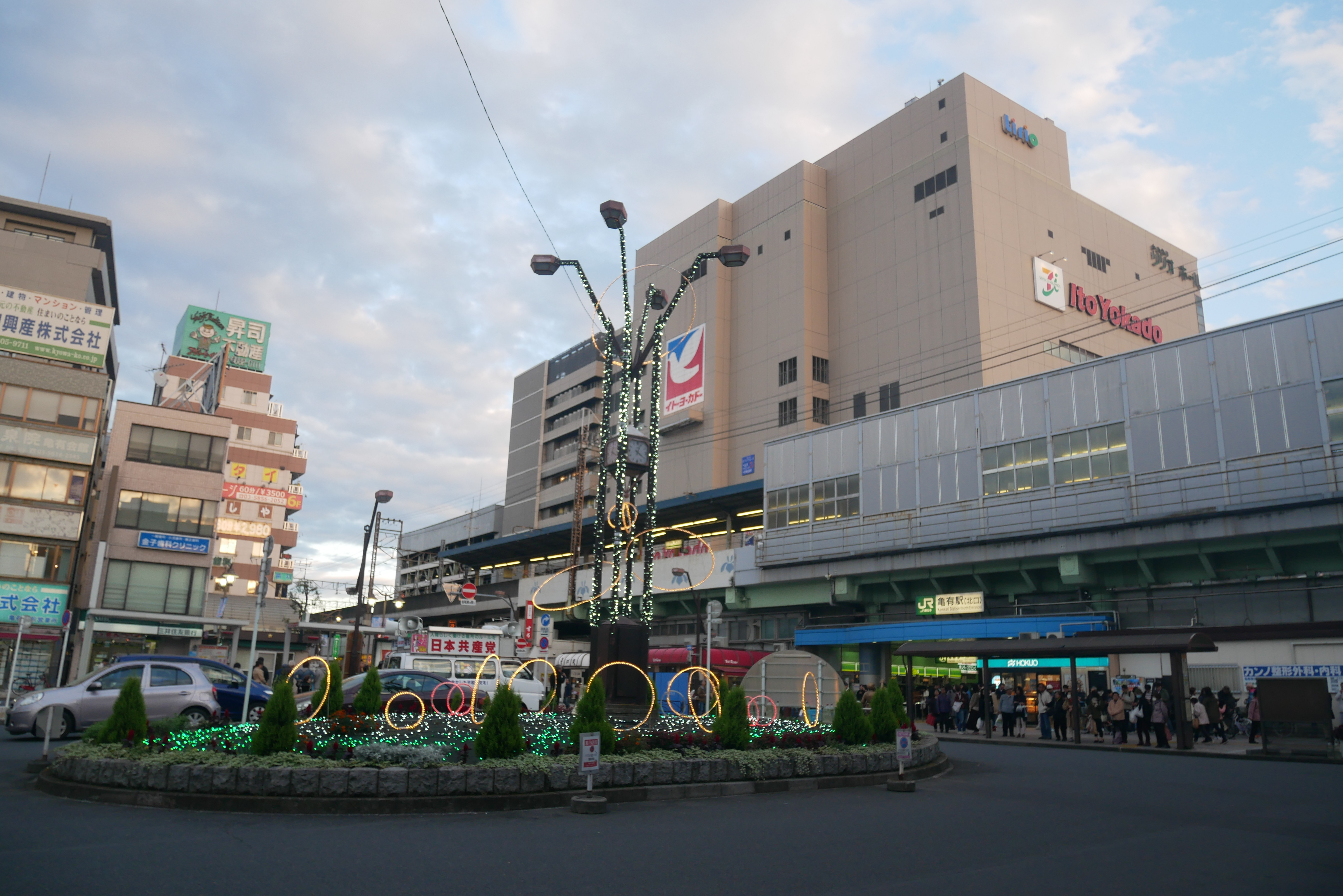 亀有駅の北口 (Kameari Station north exit) Panasonic Lumix DMC-GX7 Mark II